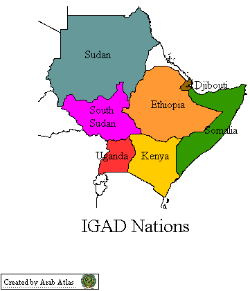 Intergovernmental Authority on Development (IGAD) Nations